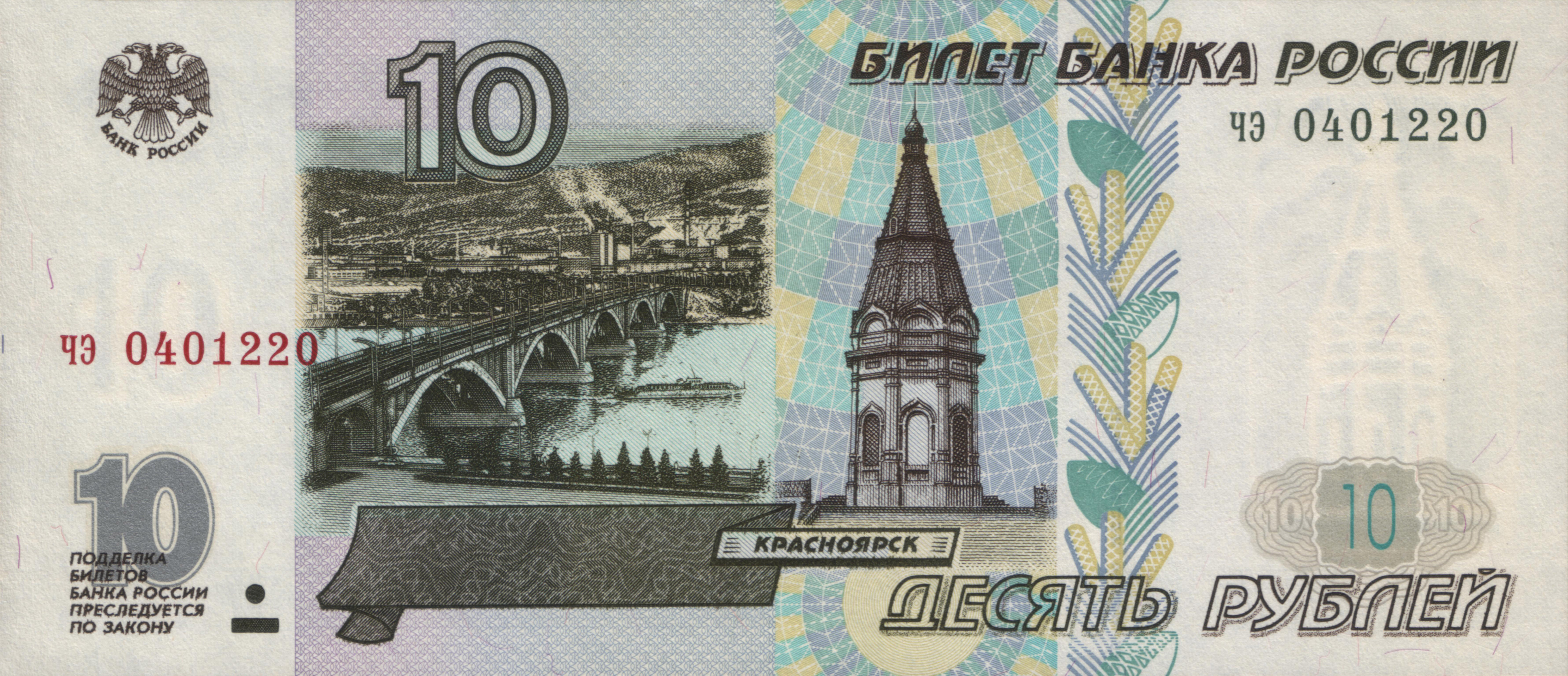 Russian banknote. 10 rubles. Version of 1997 year. Front